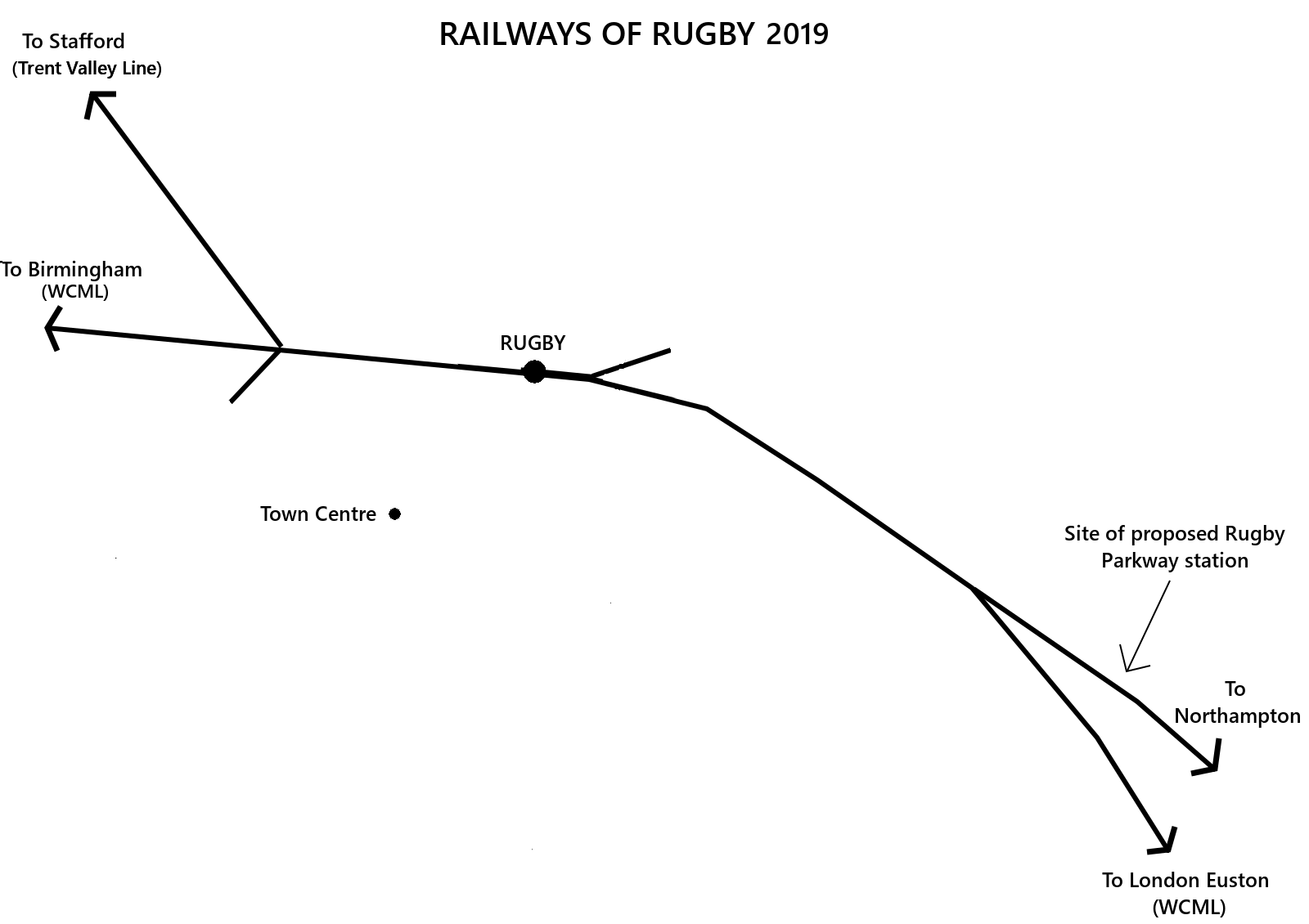 Diagram of the railways around Rugby, Warwickshire in 2019. The 2012 book 'Railway Atlas Then and Now' by Paul Smith and Keith Turner was used as a reference.